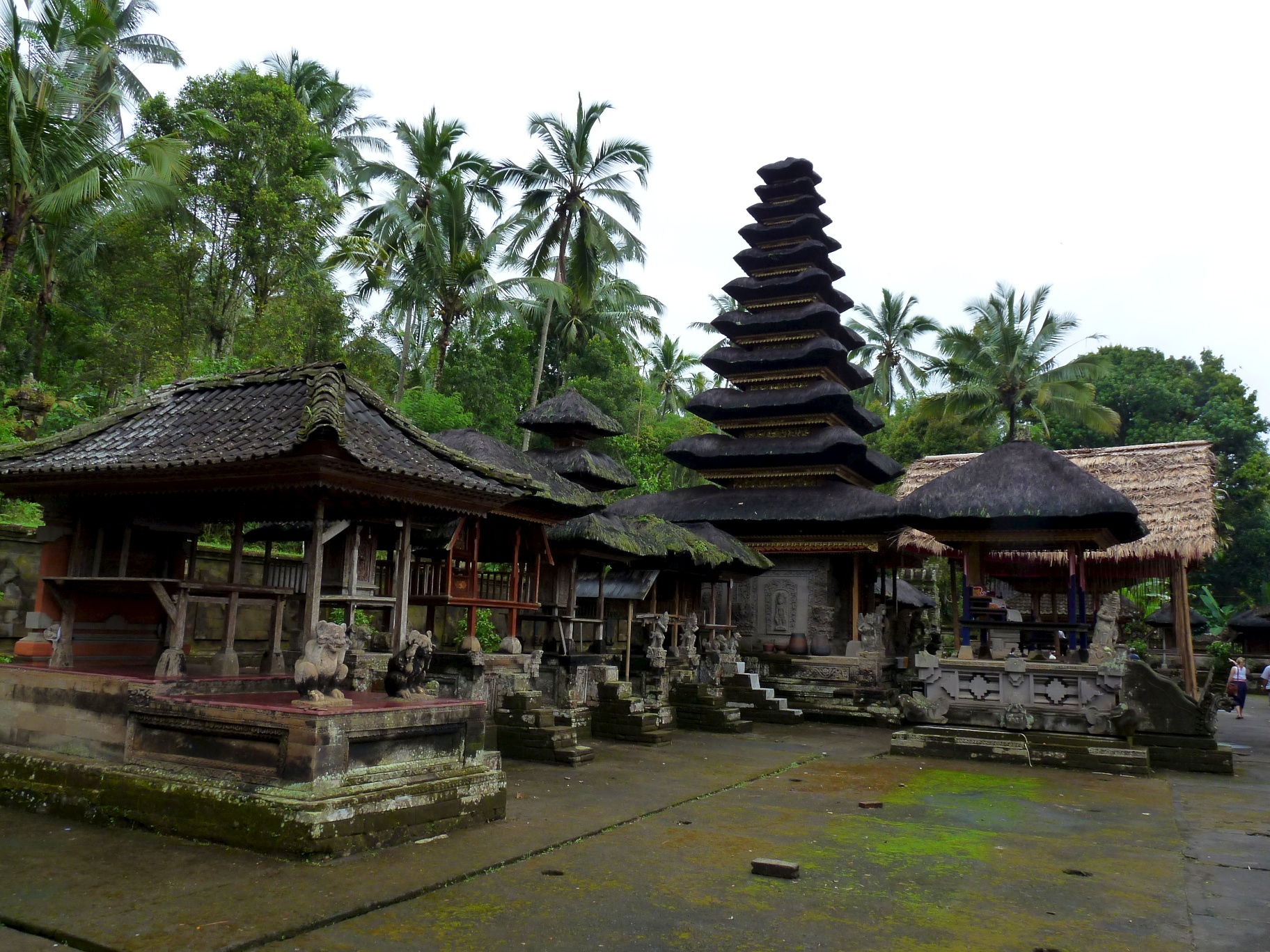 Shrines at Pura Kehen, Bali.